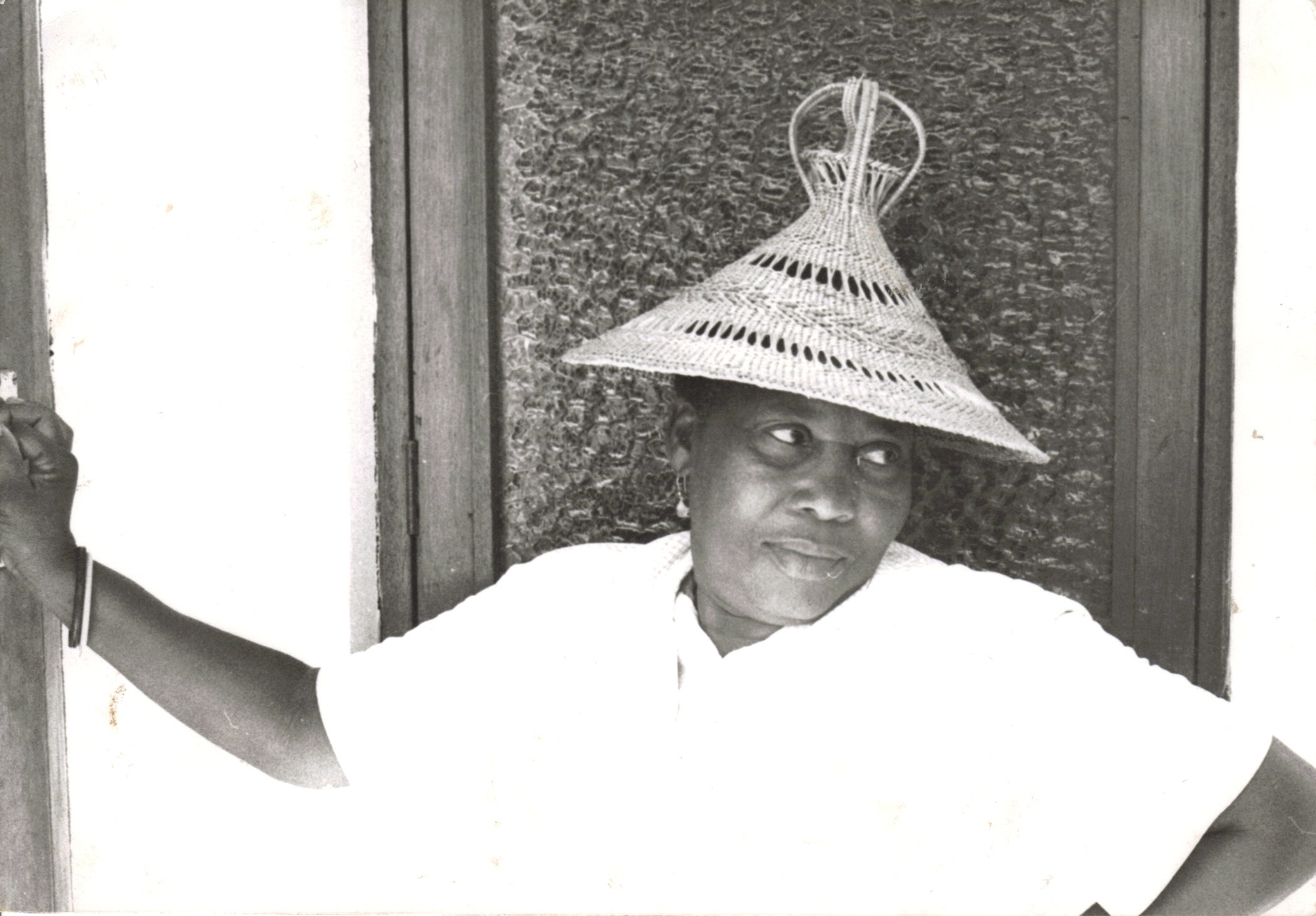 Original Flickr description: Author of Singing Away the Hunger (Indiana Univ Press, 1997). This was her favorite of the hundreds of pictures I made of her. The hat is a symbol of the Basotho people, and her father used to weave these from mountain grasses.